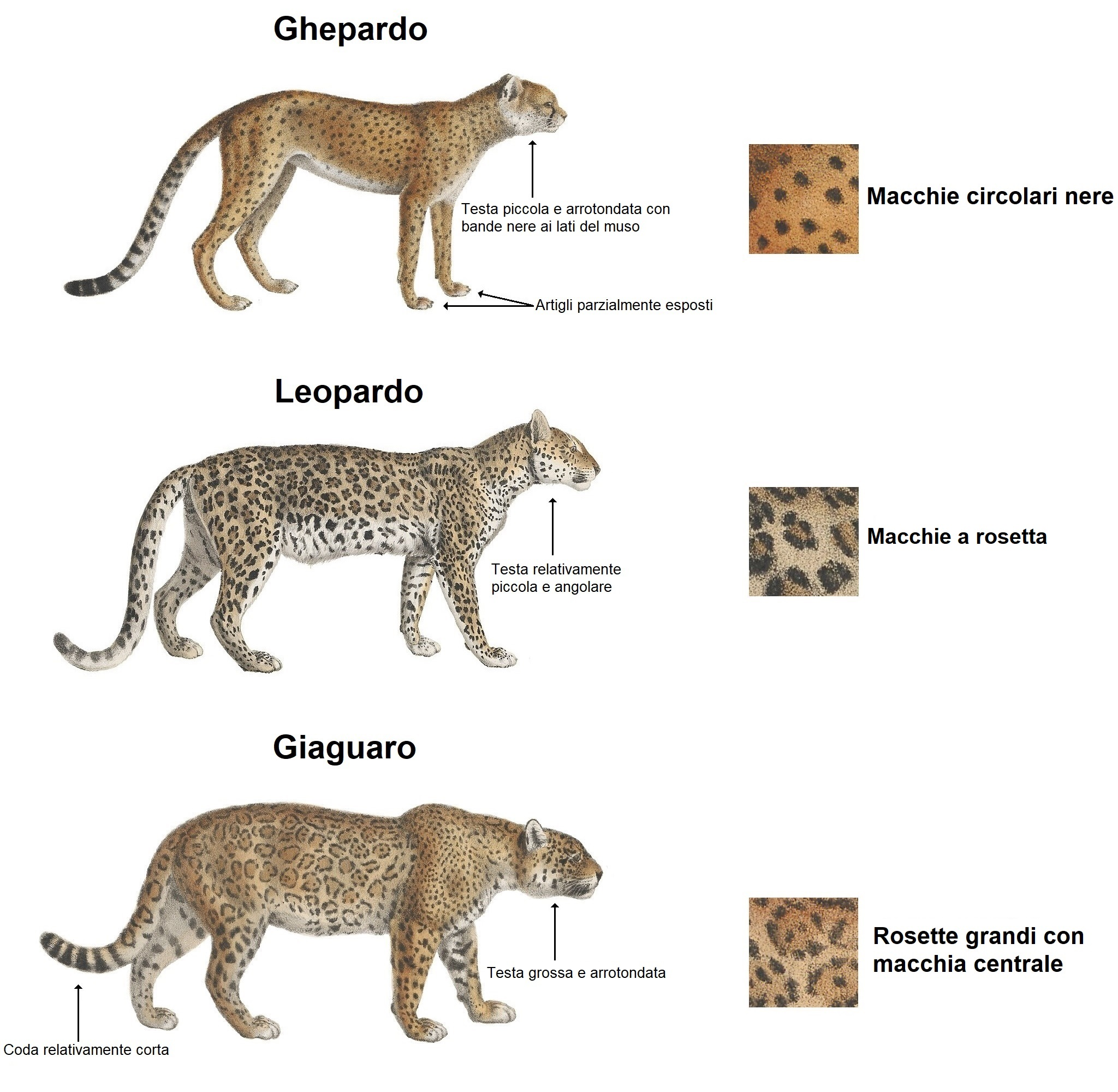 Comparative illustration of cheetah, leopard and jaguar